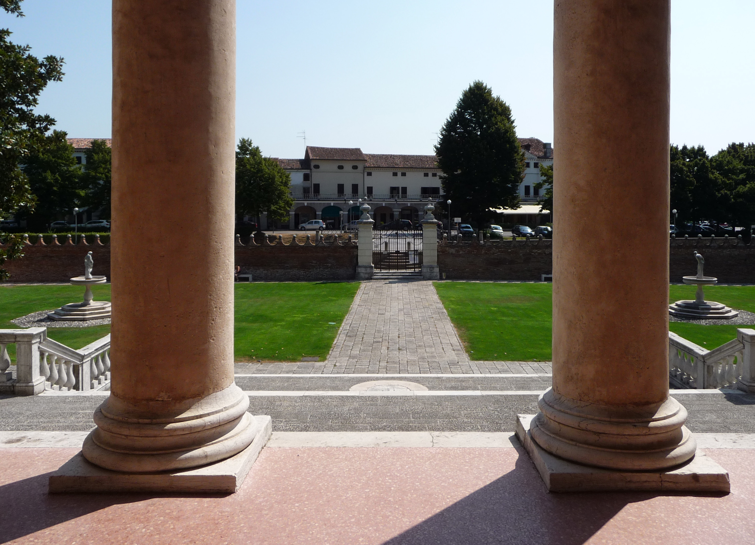 Villa Badoer in Fratta Polesine, province of Rovigo, Italy, designed by Andrea Palladio in 1554 and built 1556-1563.